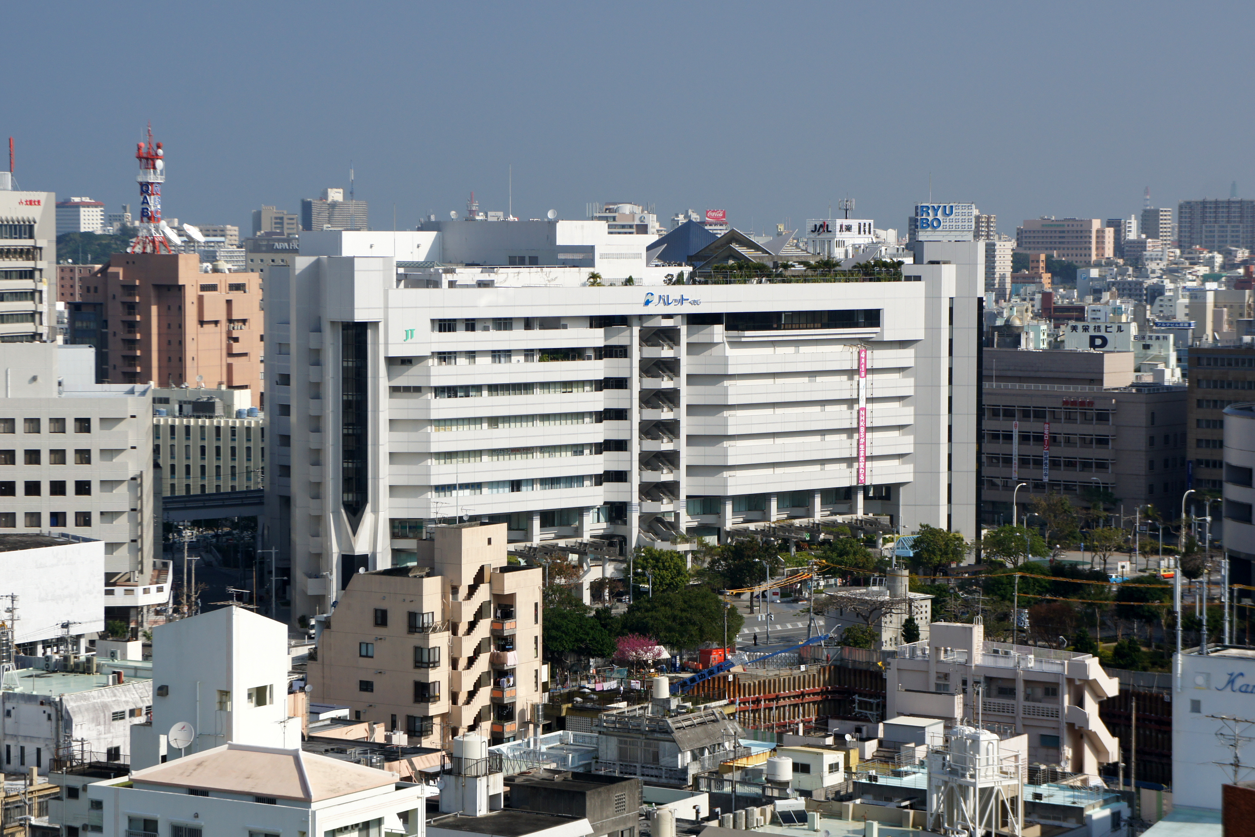 Pallet Kumoji in Naha, Okinawa prefecture, Japan